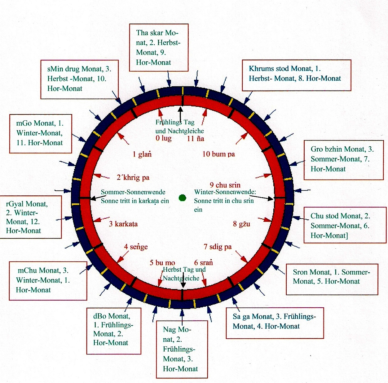 The Tibetan ecliptic, Months and Seasons according to the Kalacakratantra